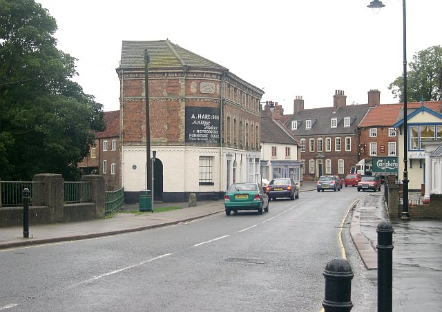 Bridge Street, Horncastle. This photograph was taken from the bridge over the River Bain. The building in the centre is the old Wool Warehouse, now one of many used by the antiques trade. The house with the triangular pediment over its door is the start of West Street, which is mainly out of view round the corner to the left. Horncastle is situated at the confluence of the Bain and Waring rivers